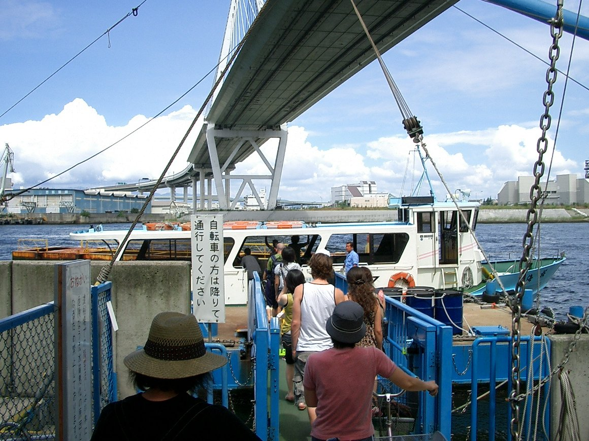 This photo presents the people embarking in Chikko Dock for Osaka City Ferry Tempozan line. ja: 大阪市営渡船に乗船する人々（天保山渡船 築港のりば にて）